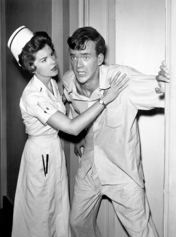 Photo of Sue Randall and Jim Hutton from The Twilight Zone episode, "And When the Sky Was Opened".